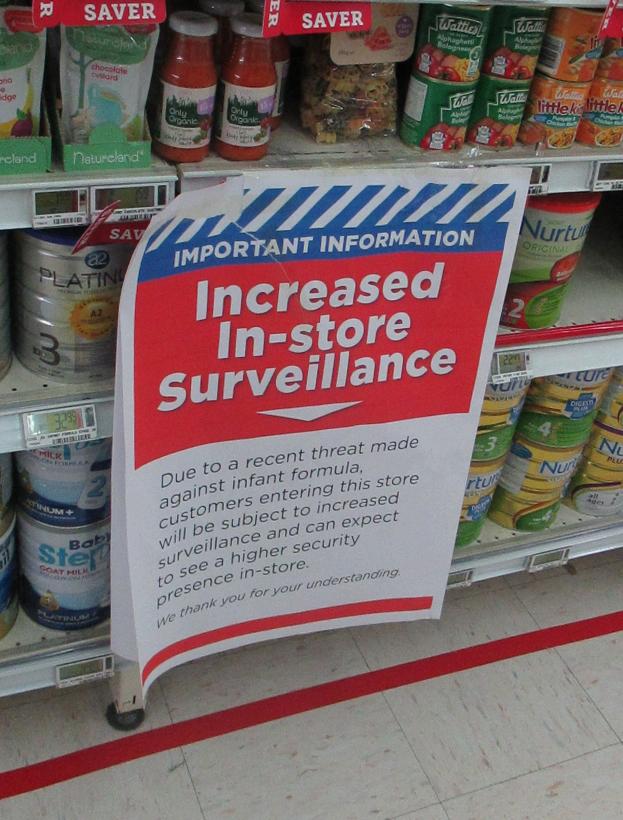 A few days after it was revealed that an anonymous individual had threatened to poison milk products with the poison 1080, the following sign was on display at the New World in central Wellington, New Zealand.